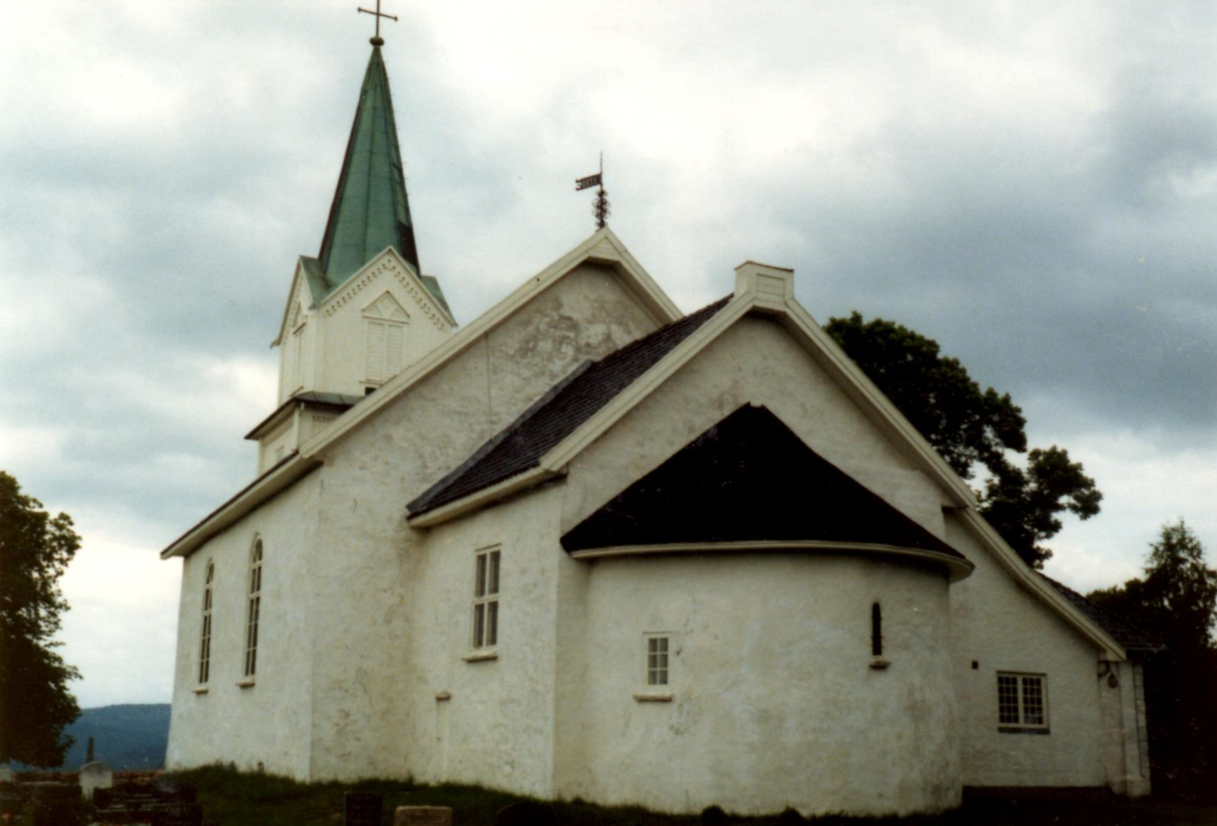 The medieval Hurum Church at Klokkarstua in the municipality of Hurum.